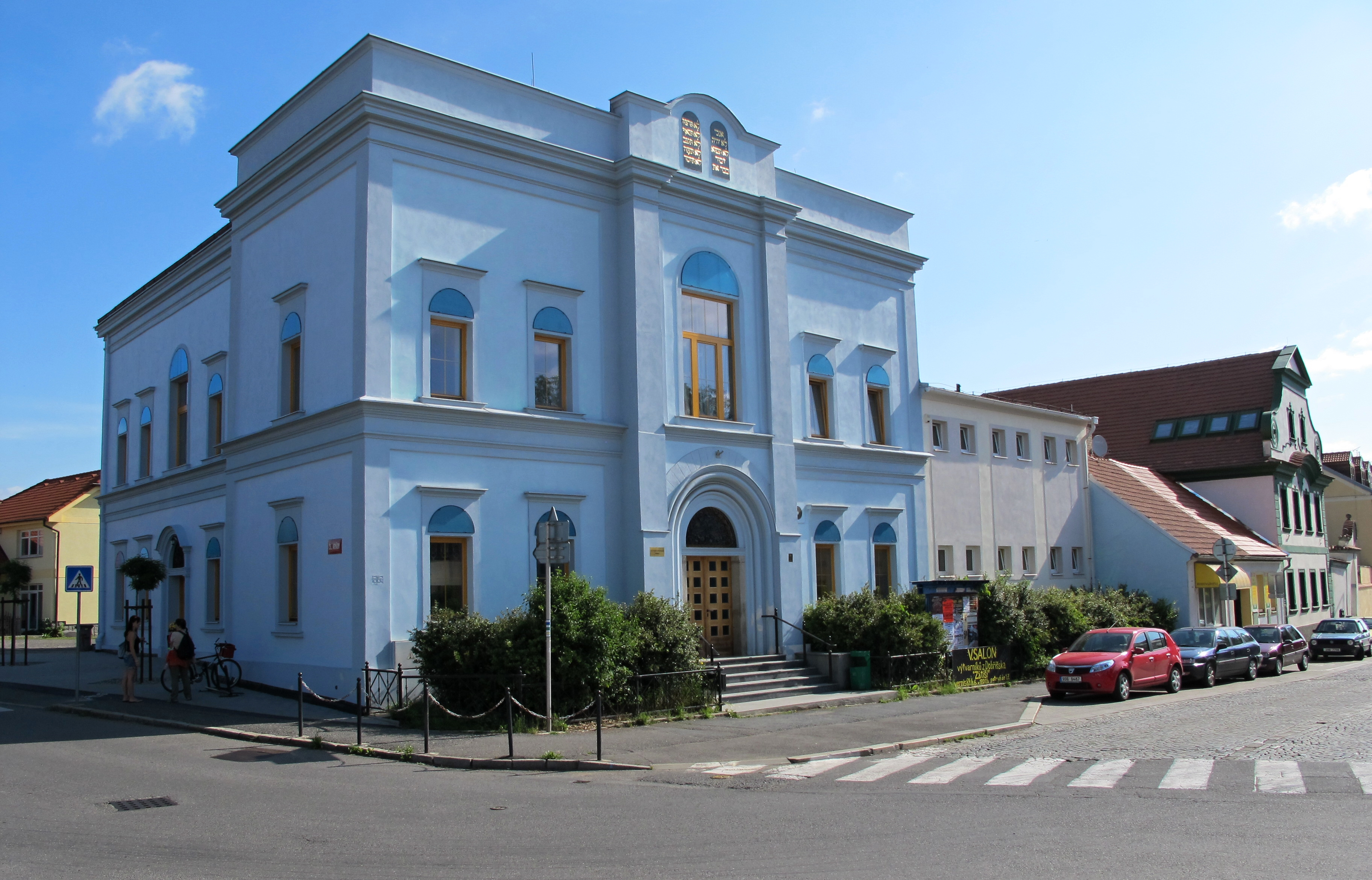 Cultural center (and former synagogue) on square in Dobříš, Příbram District